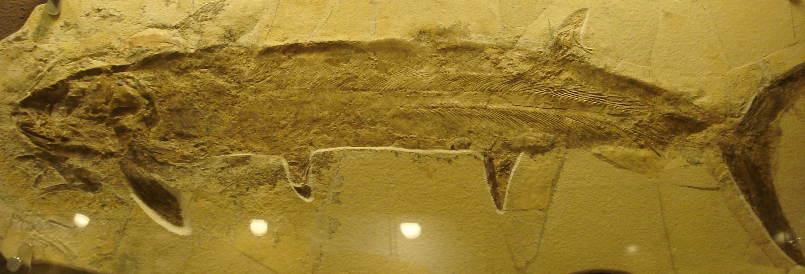 fossil of asthenocormus